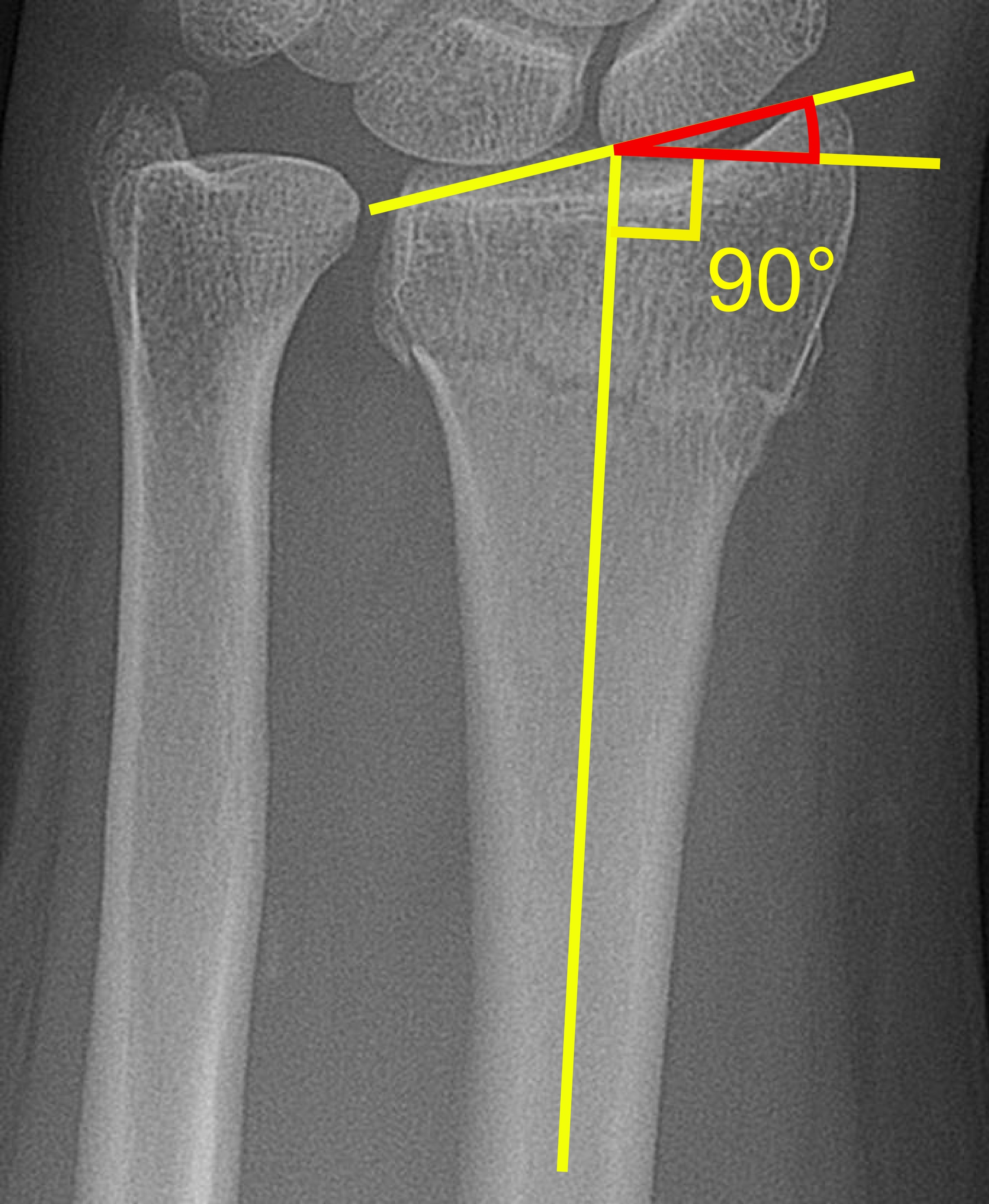 Radial inclination of a distal radius fracture. This angle is shown in red and goes between:[1][2] A line drawn between the distal ends of the articular surface of the radius. A line that is perpendicular to the diaphysis of the radius. References ↑ Jack A Porrino, Jr (2015-10-20). Distal Radial Fracture Imaging. Medscape. Retrieved on 2016-12-18. ↑ Pankaj Kumar Mishra, Manoj Nagar, Suresh Chandra Gaur, Anuj Gupta (2016). "Morphometry of distal end radius in the Indian population: A radiological study". Indian Journal of Orthopaedics 50 (6).